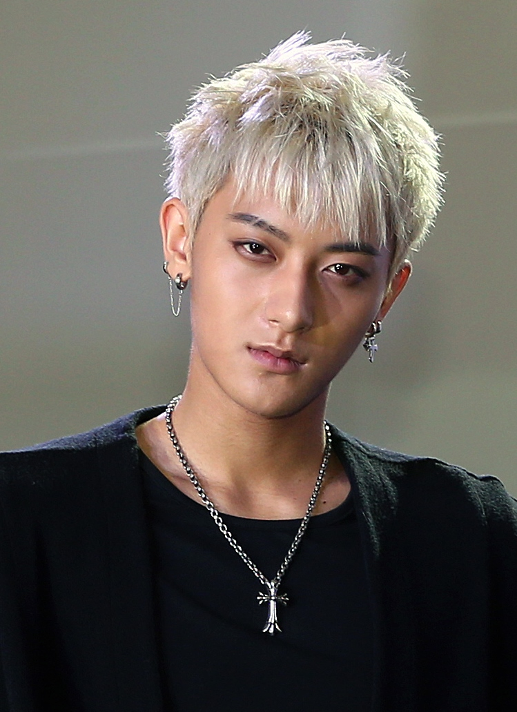 Tao Huang at the Fashion Kode on July 16, 2014.